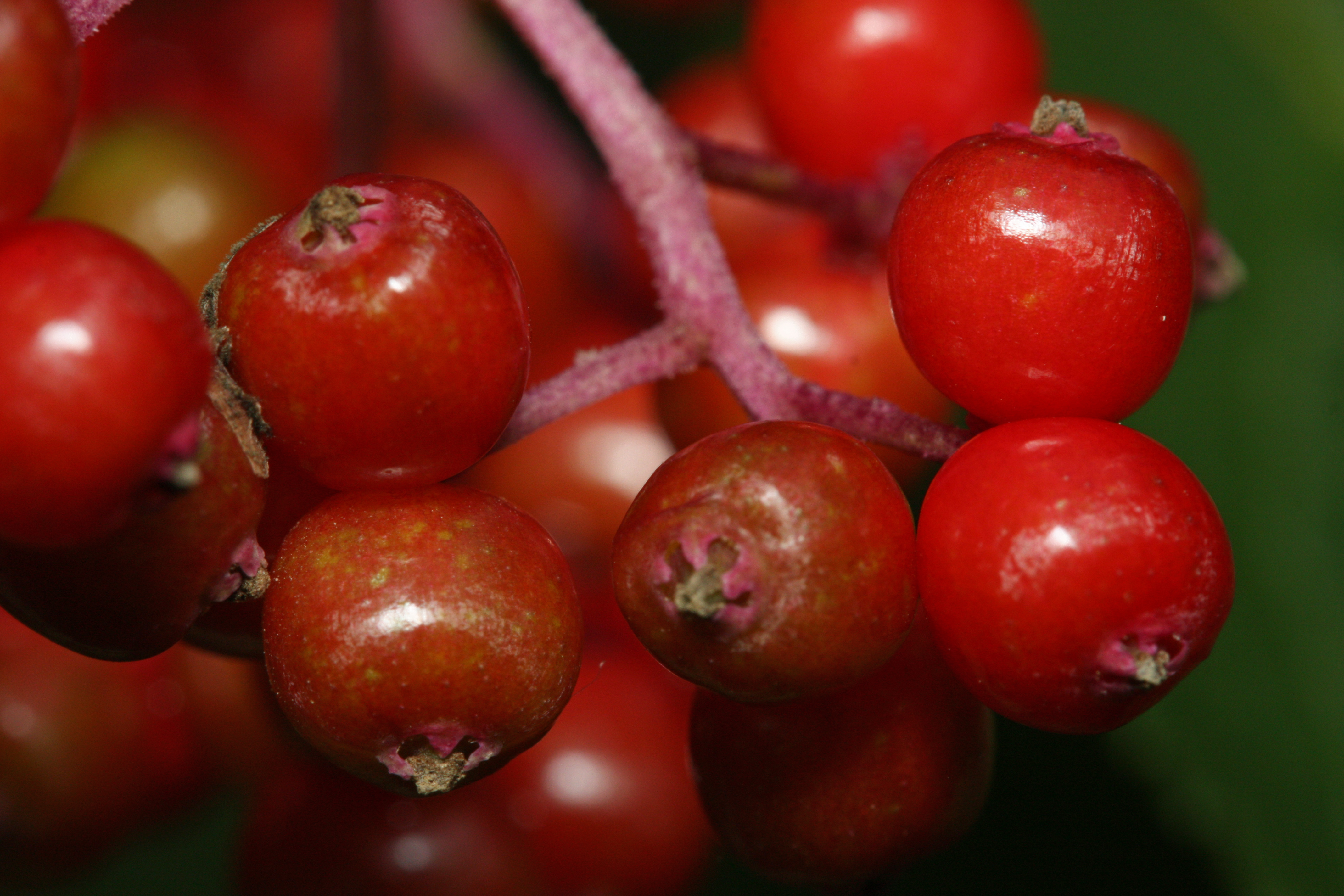 Red Elderberry, Coast Red Elderberry